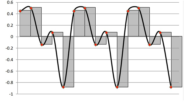 Digital data and analog curve of a DAC